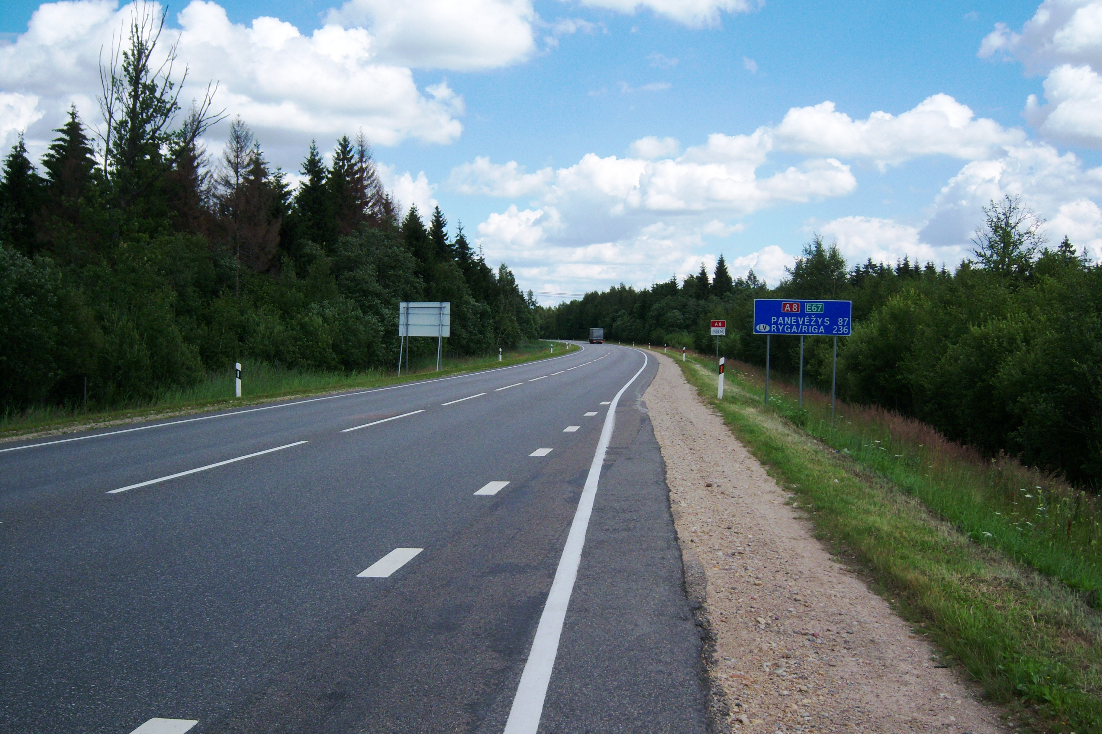 Road A8, near Sitkūnai, Kaunas district, Lithuania